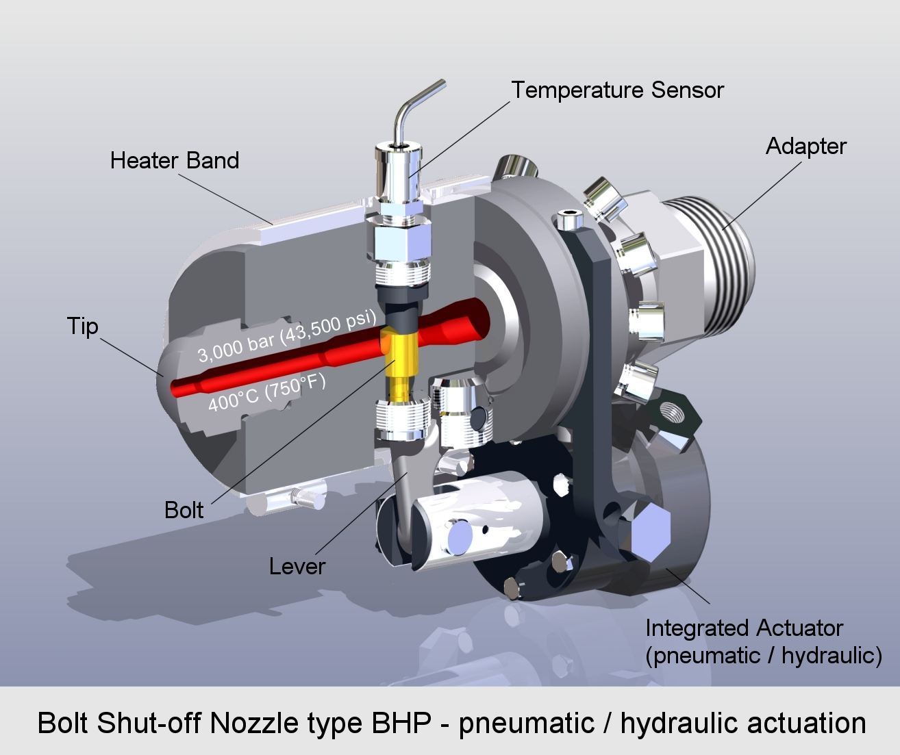 Bolt Shut-off Nozzle type BHP - pneumatic or hydraulic actuation info